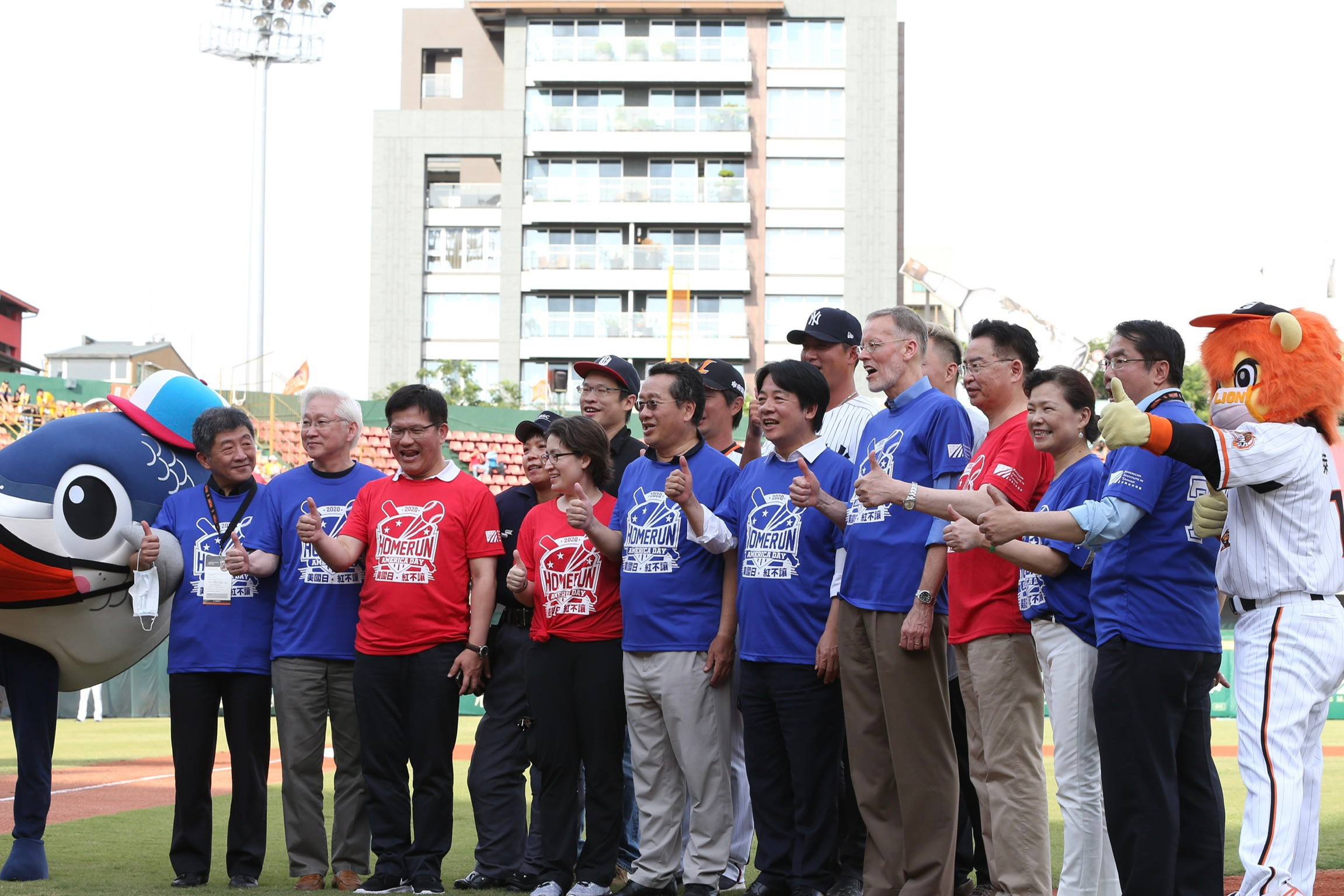 Official Photo by Simon Liu / Office of the President